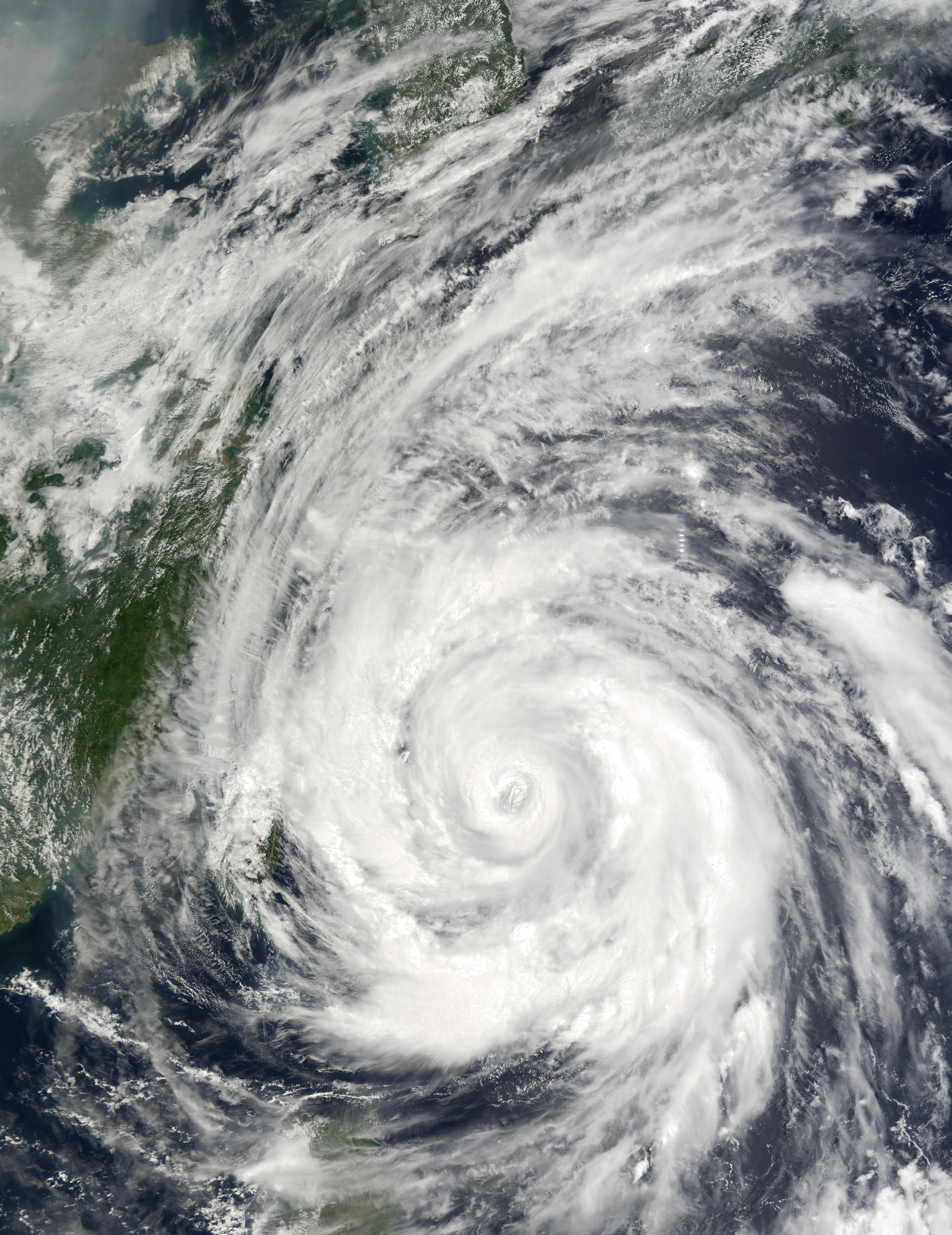 Before winding down on July 6, 2002, Typhoon Rammasun reached Category 3 hurricane status, with maximum sustained winds of 110 knots (127 miles per hour). On July 3 and 4 4, 2002, the Moderate Resolution Imaging Spectroradiometer (MODIS) captured these images of the storm off the coast of east-central China and Taiwan (partially cloud covered near center of image). The storm veered northward and eventually made landfall over Korea, where it broke up.